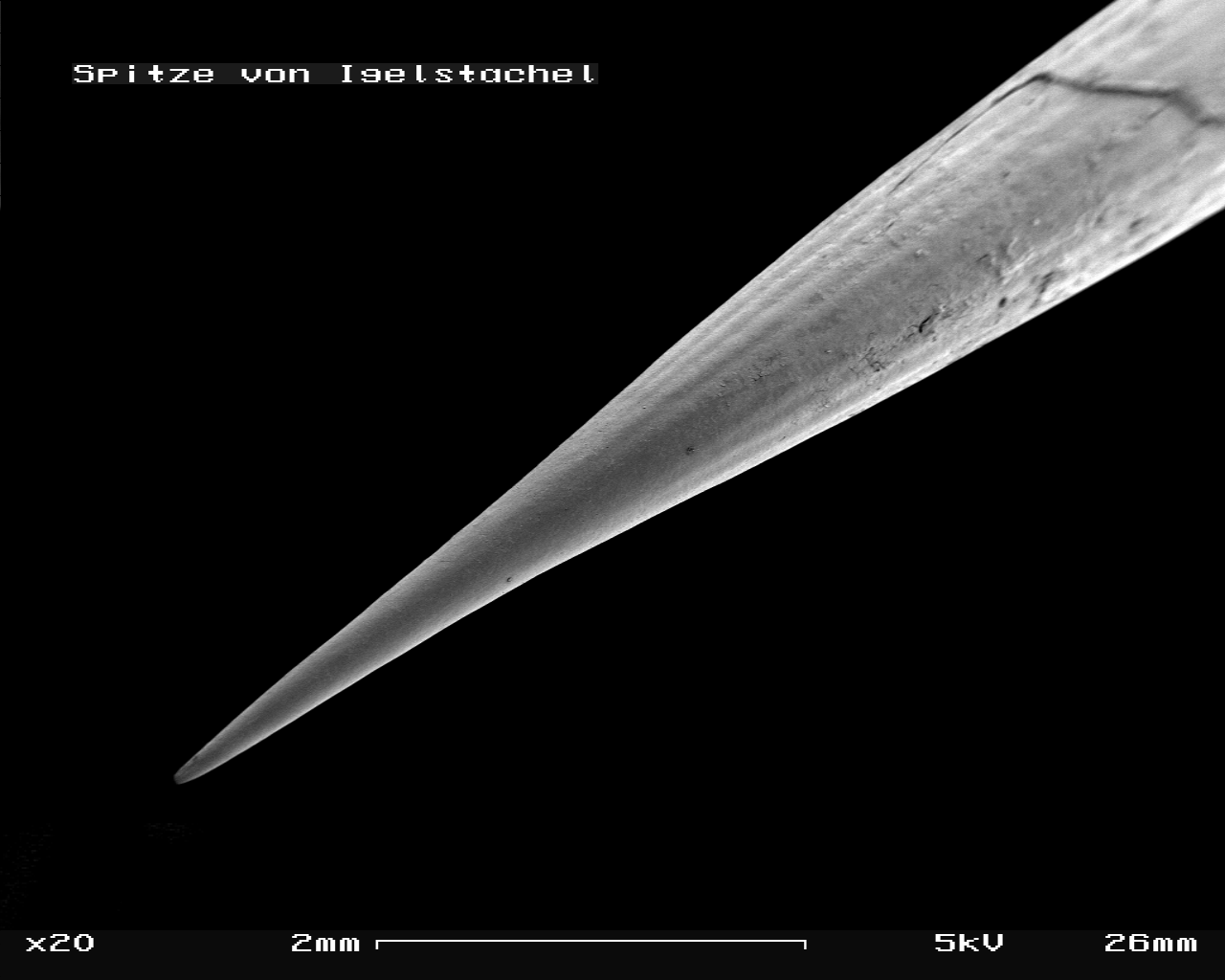 Hedgehog sting in SEM, 20x